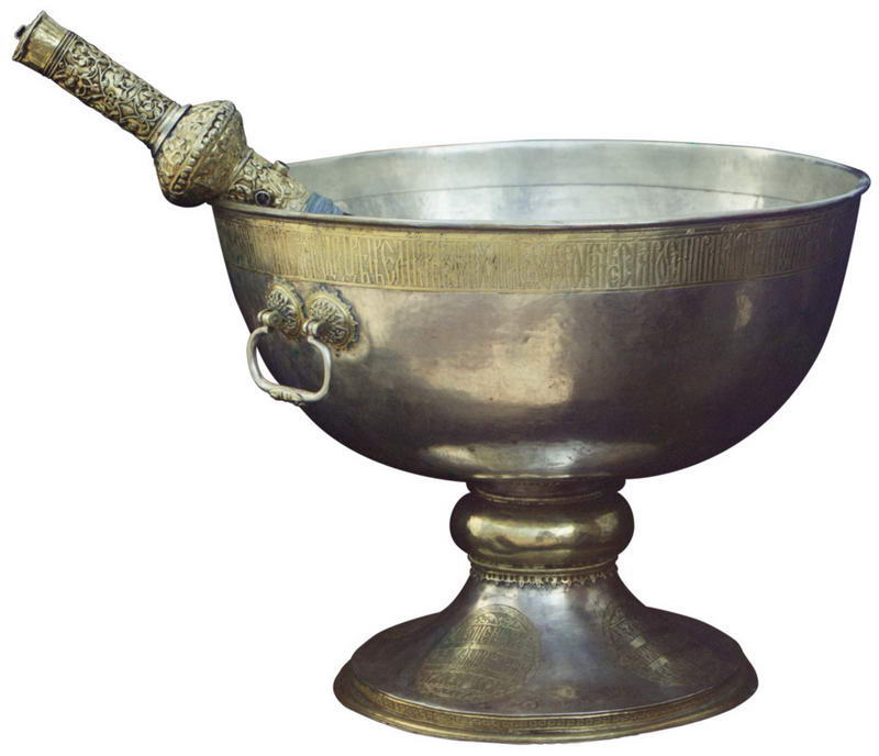 holy-water basin and sprinkler